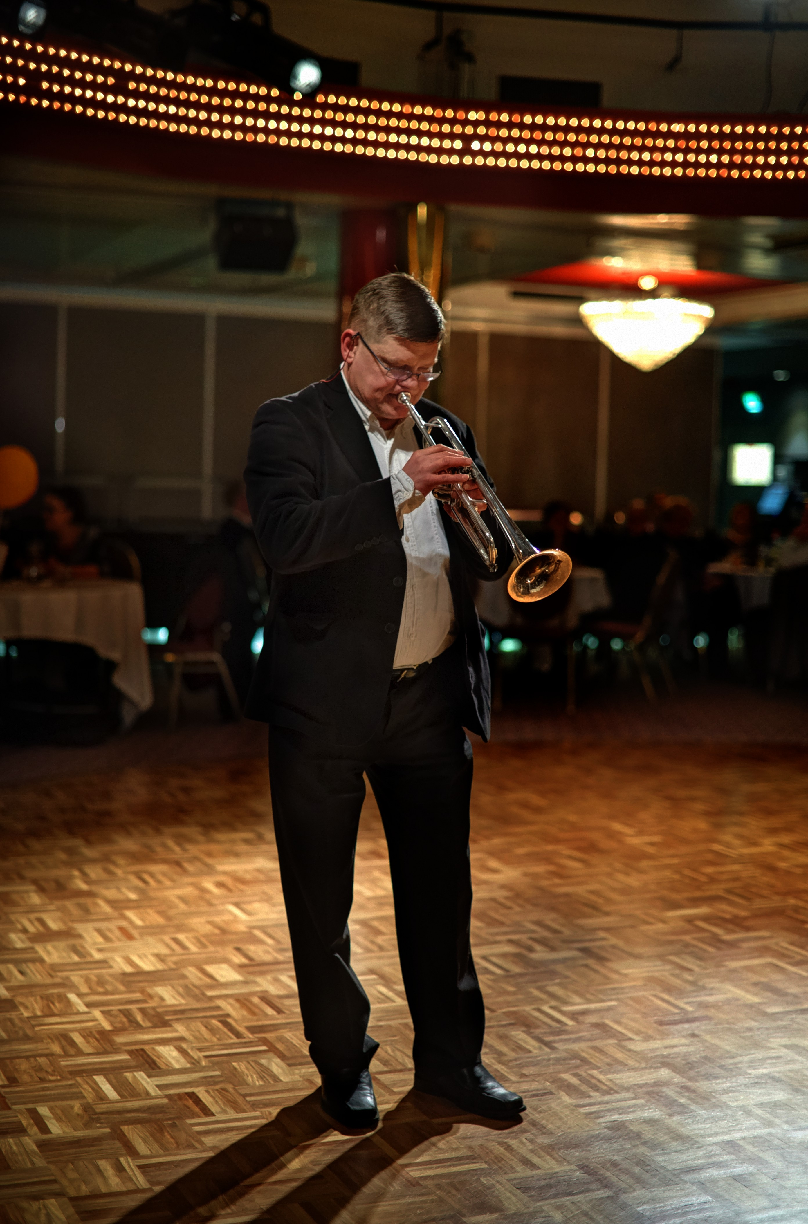 Trumpetist Ismo Varis at hotel Patria, Lappeenranta, Finland 31.1.2014